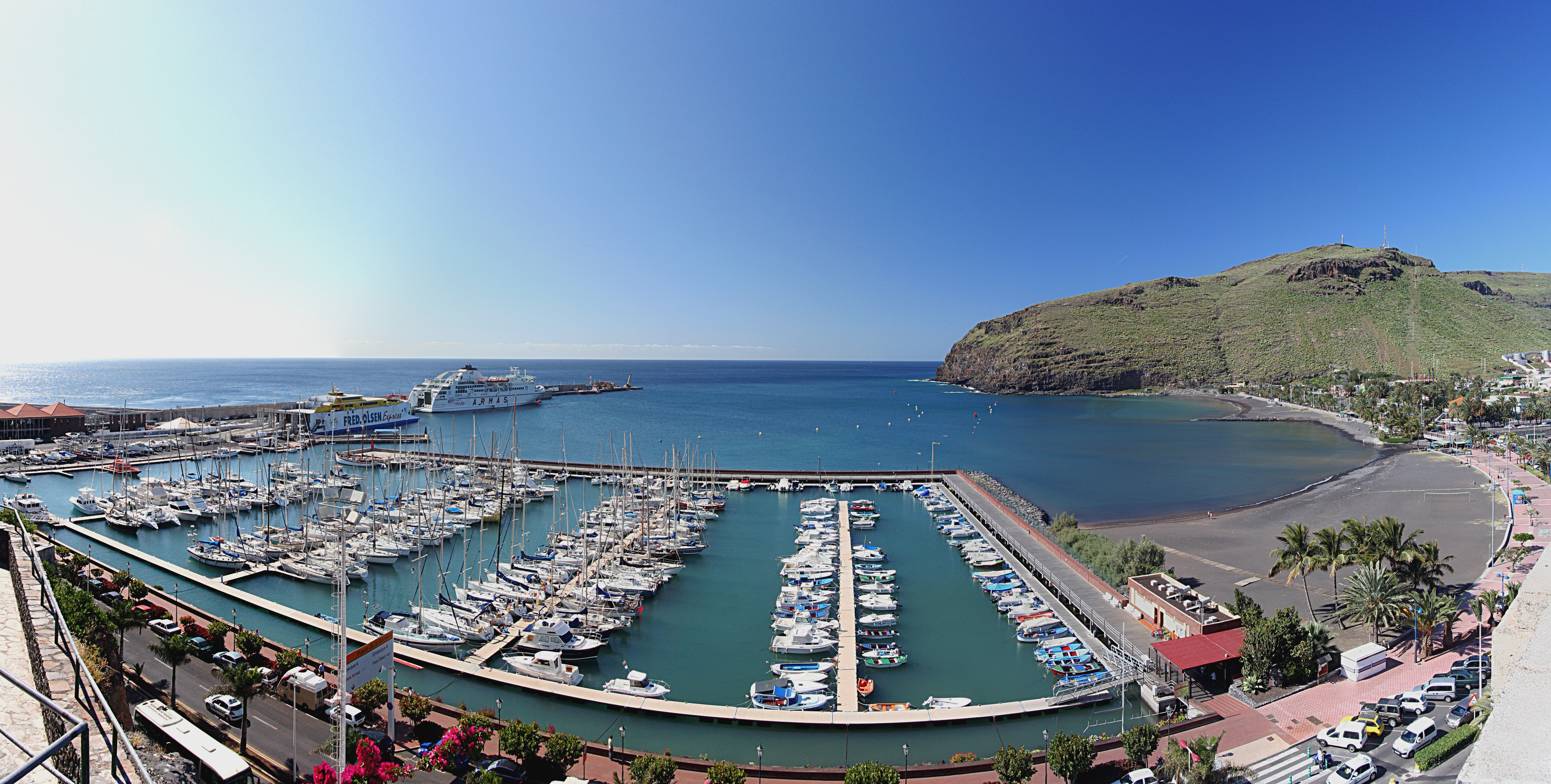 View of part of the harbour of San Sebastián de La Gomera. Calle de San Sebastián, 38800 San Sebastián de La Gomera, Spain